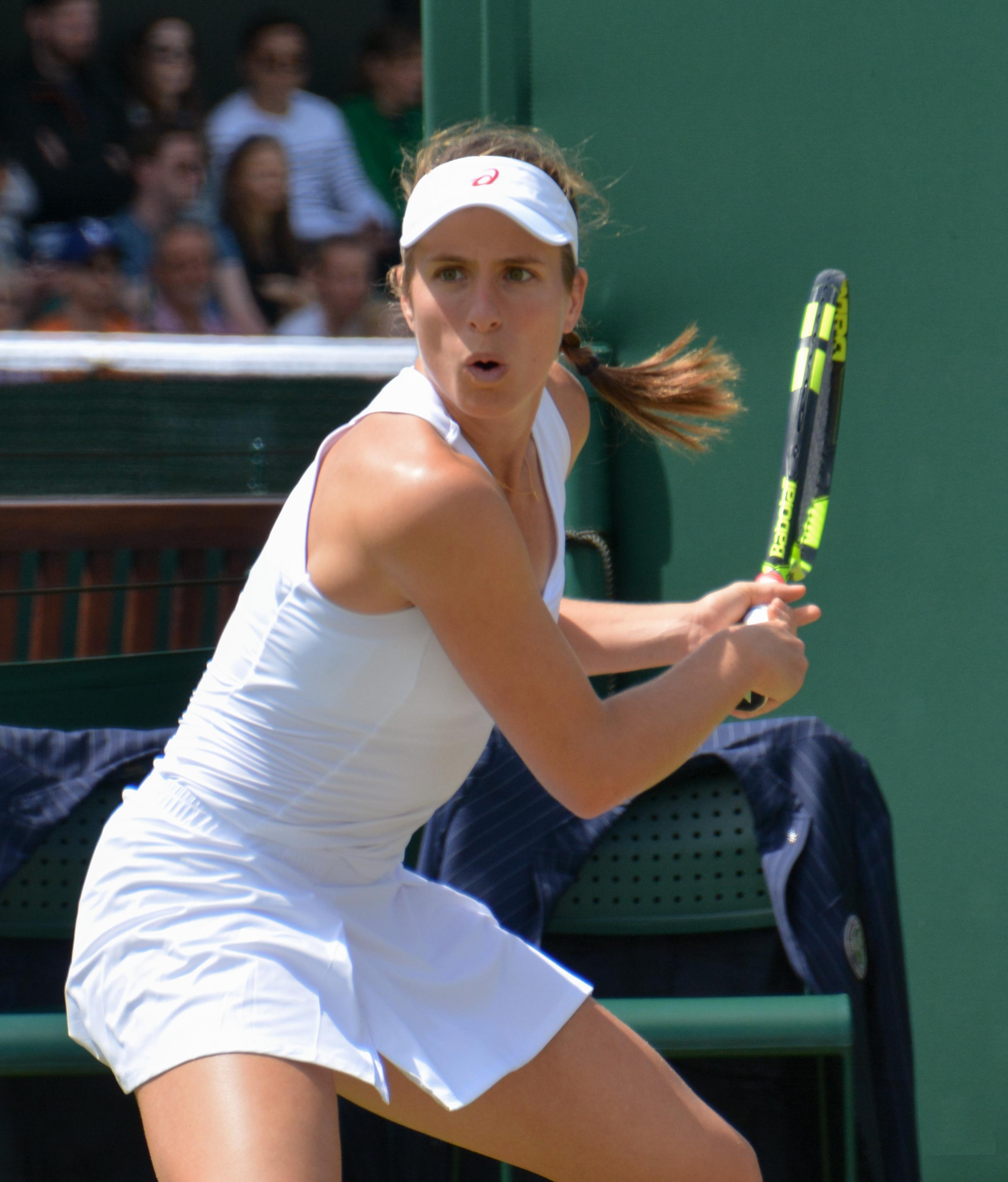 Middle Sunday of Wimbledon 2016.